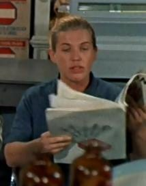 Cary Grant & Kathleen Freeman in Houseboat - trailer (cropped screenshot)